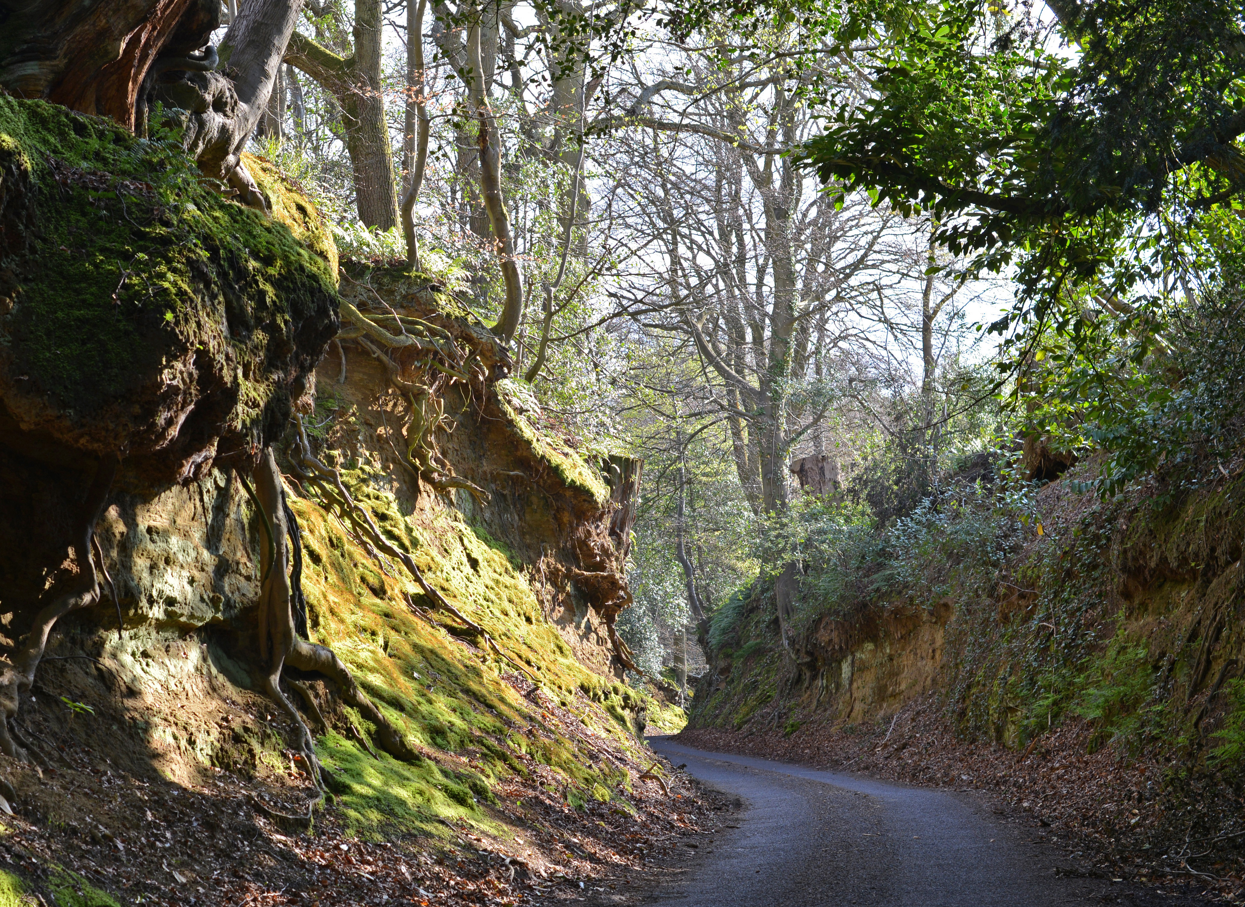 A metalled hollow way viewed in Spring.